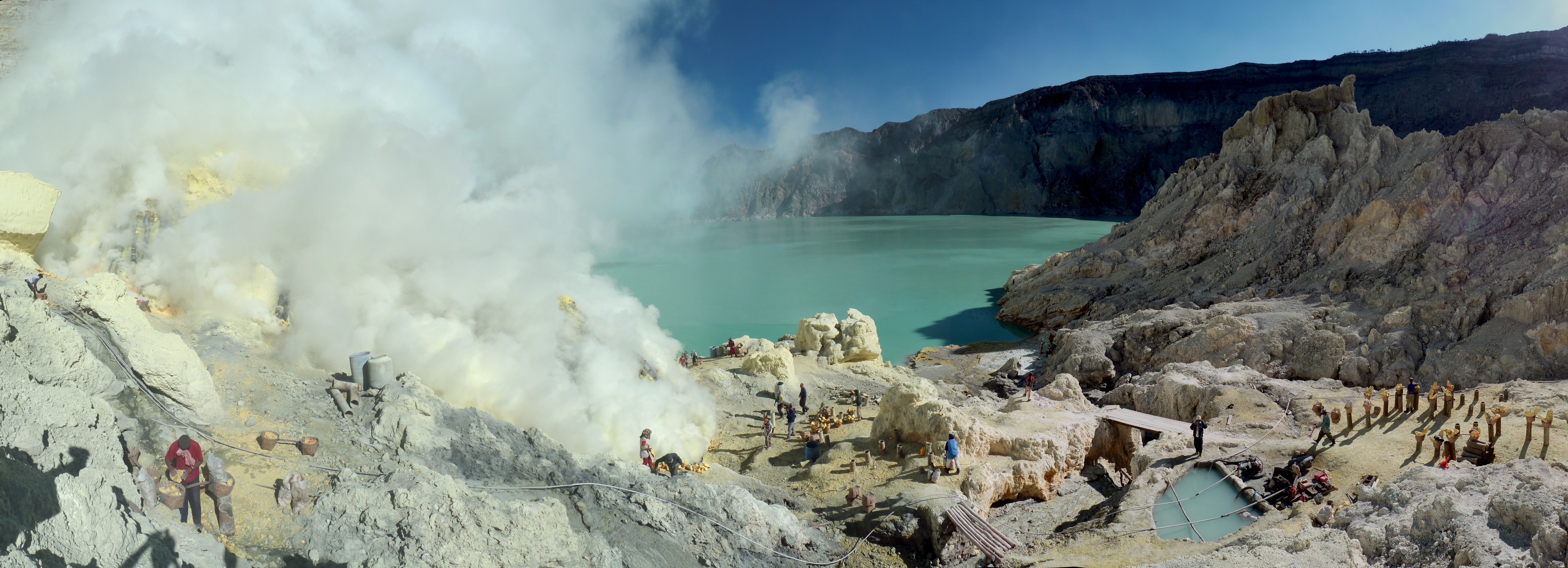 Sulfur mining in Kawah Ijen volcano, Java, Indonesia. At the upper left of the picture, the sulfur, yellow and orange, is emitted as yellowish vapor and forms crystal concretions on the rock face of the crater. Big pipes capture vapor at ground level to facilitate the extraction. To condense the hot vapor, water is supplied through a pipe from a small pond at the bottom right, then thrown with buckets on the pipes carrying the vapor to cool them. In the left half of the picture, miners carry sulfur blocks in wicker baskets. To protect themselves against toxic vapors that pervade this part of the crater, they wear masks or simple rags. The baskets are then taken to a flat area on the right. Afterwards, workers carry them on their shoulders up to the rim of the crater, then down the side of the volcano to a place trucks can access. The trucks finally deliver the sulfur to a processing plant.